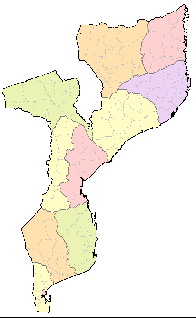 Map of the districts of Mozambique. Created by Rarelibra 20:01, 3 August 2007 (UTC) for public domain use, using MapInfo Professional v8.5 and various mapping resources.